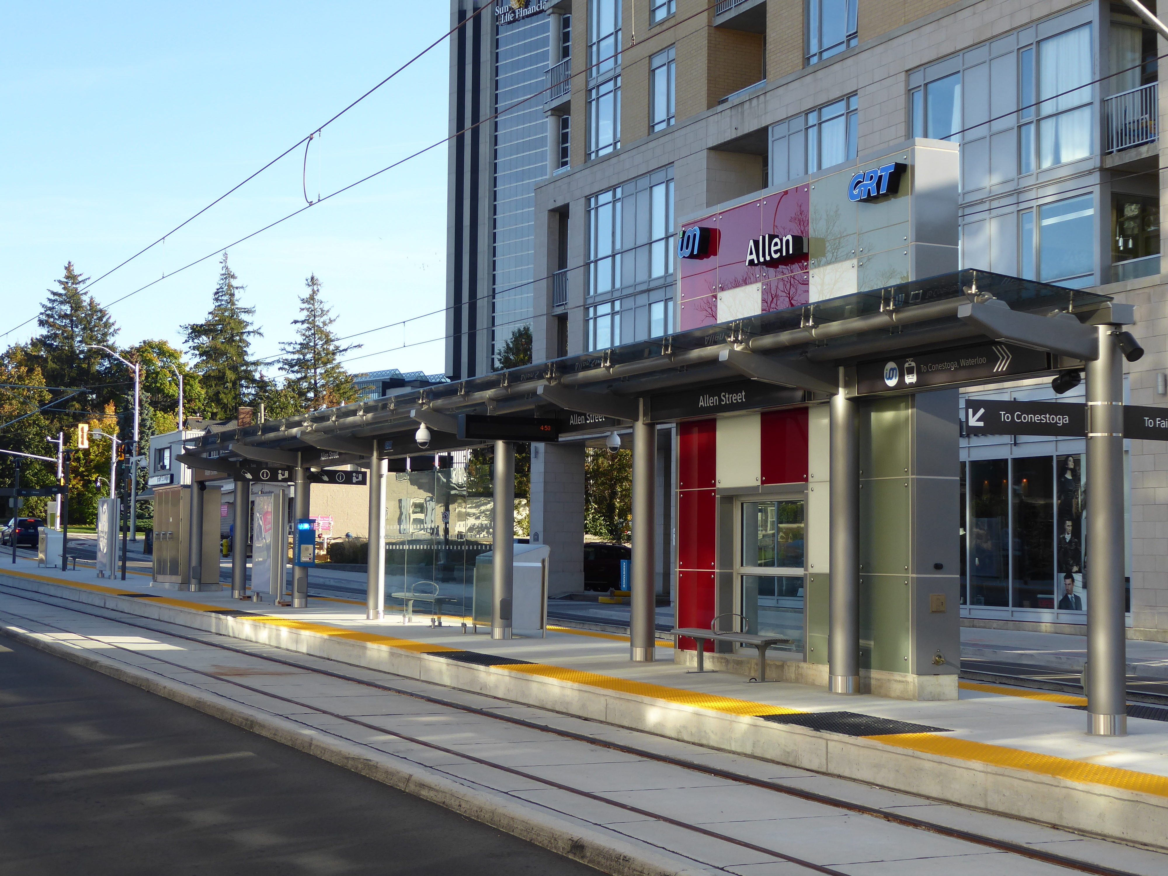 Allen Station of the Ion rapid transit system, photographed structurally complete October 2017